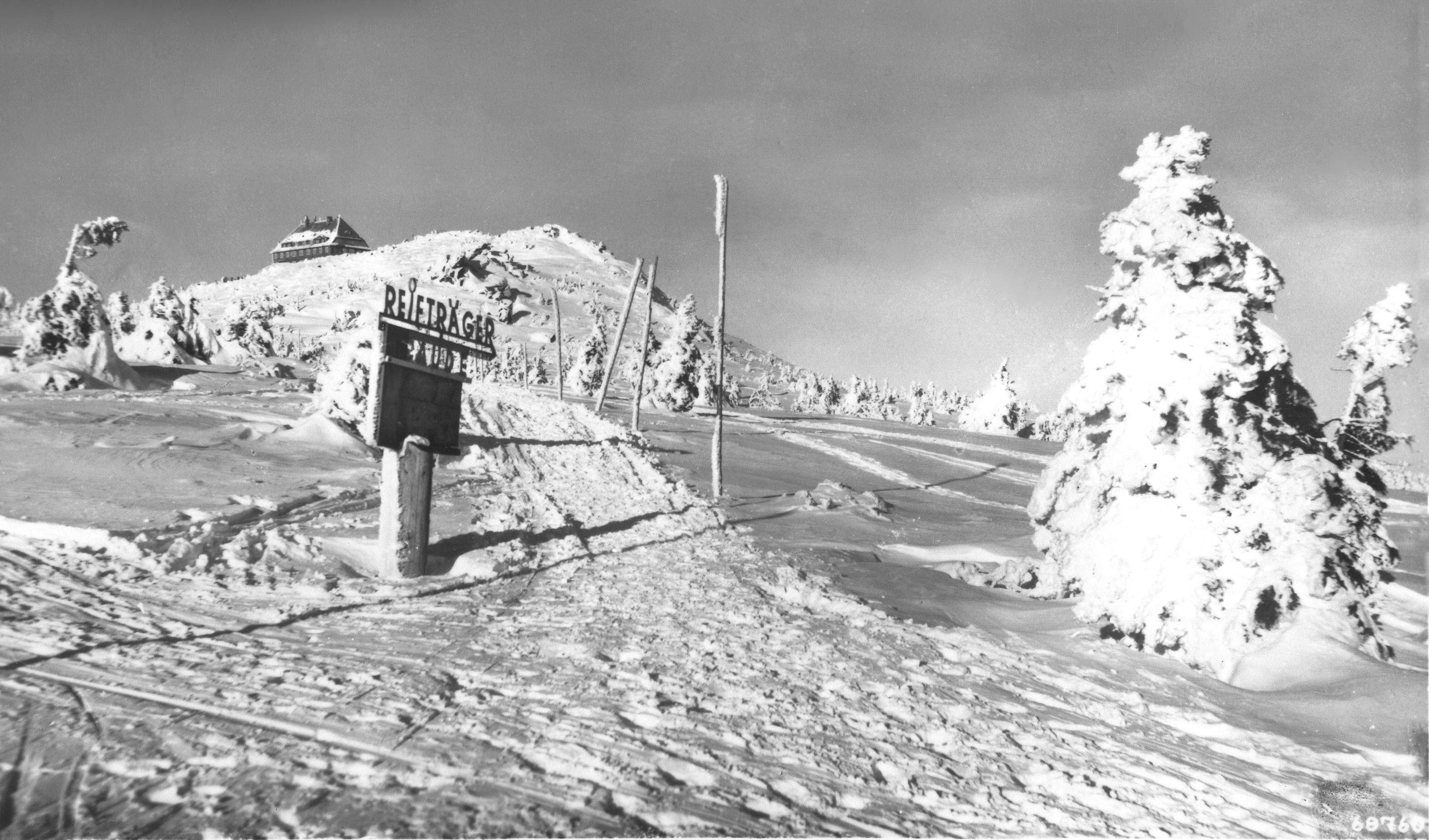 Szrenica Hut, Karkonosze.